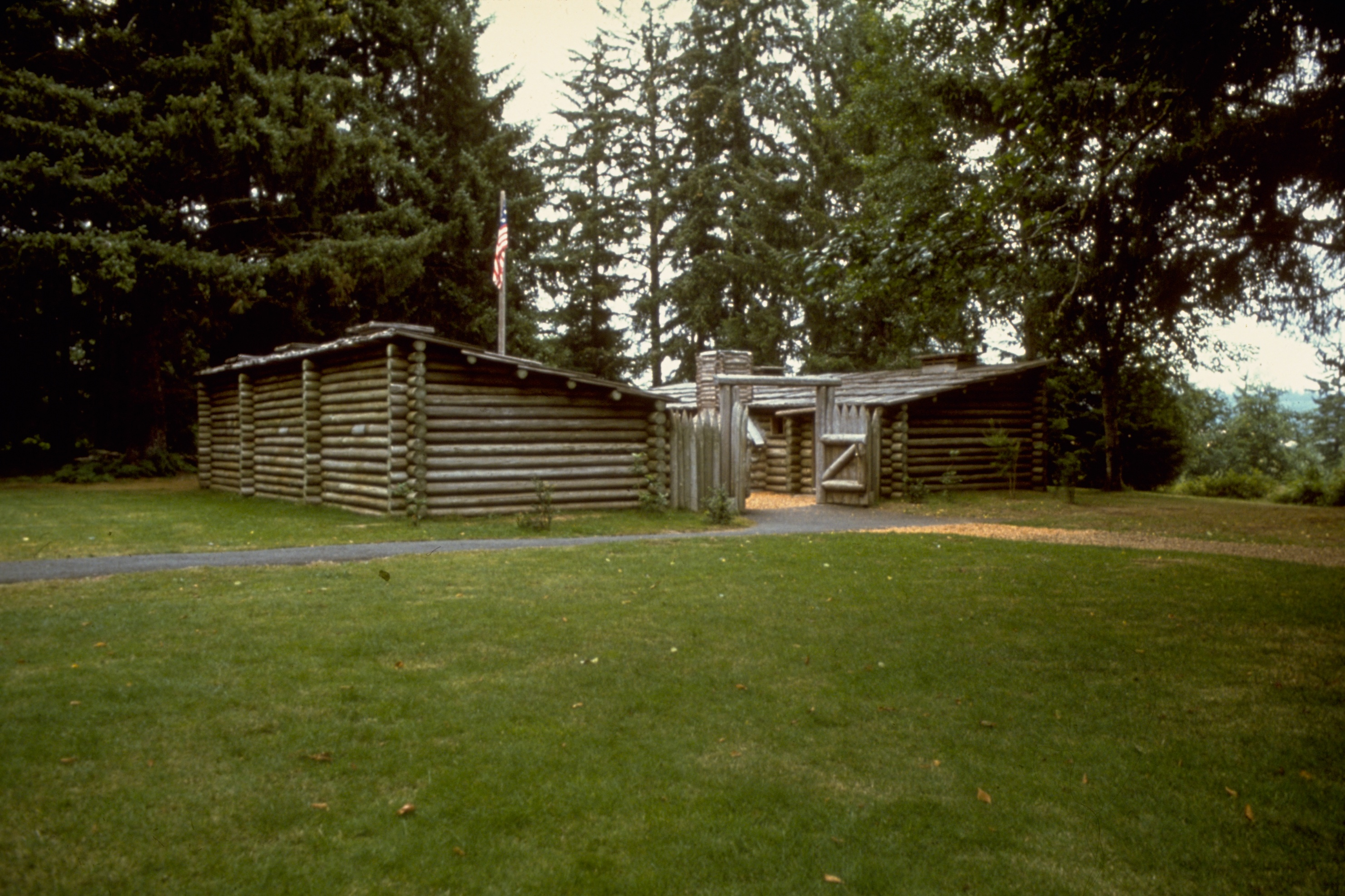 Location Lewis and Clark National Historical Park (Fort Clatsop Description Fort Clatsop was the winter encampment for the Corps of discovery from December 1805 to March 1806.